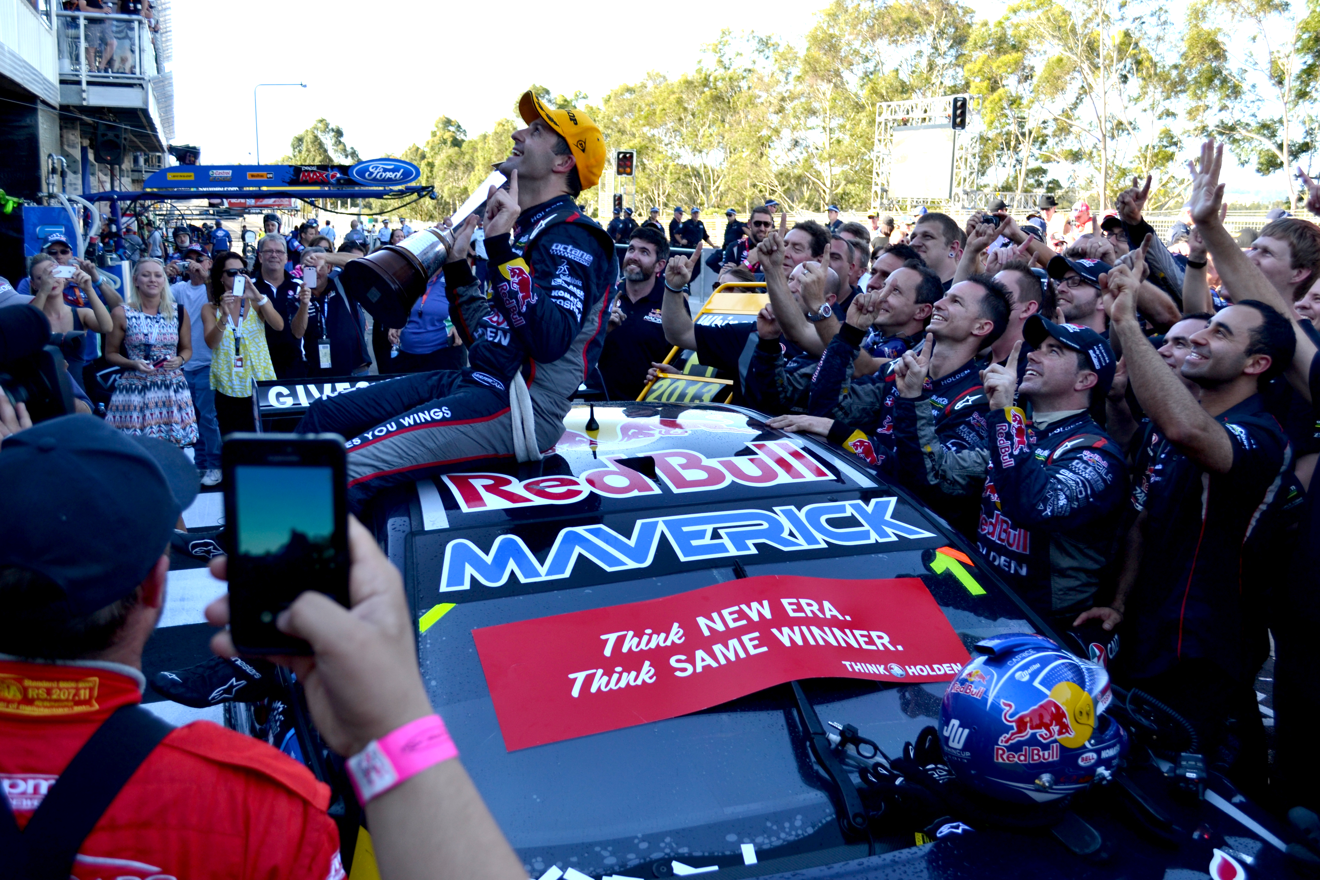 Jamie Wincupwins the 2013 V8 Supercar Championship for Red Bull Racing Australia